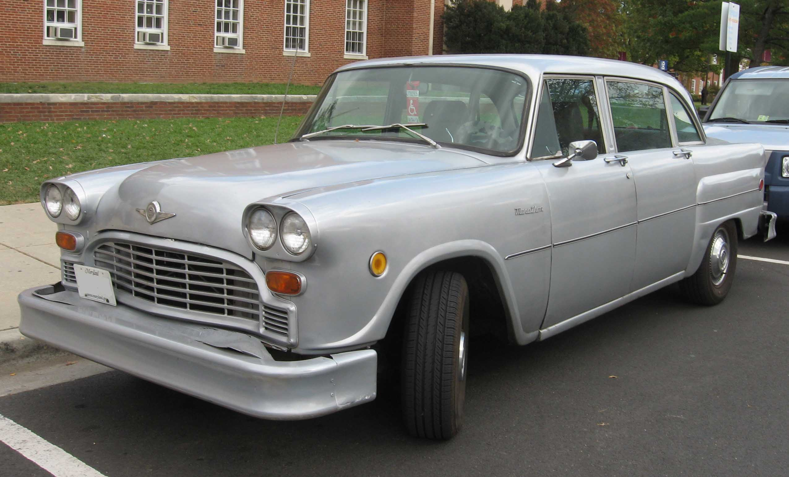 Checker Marathon photographed in College Park, Maryland, USA.